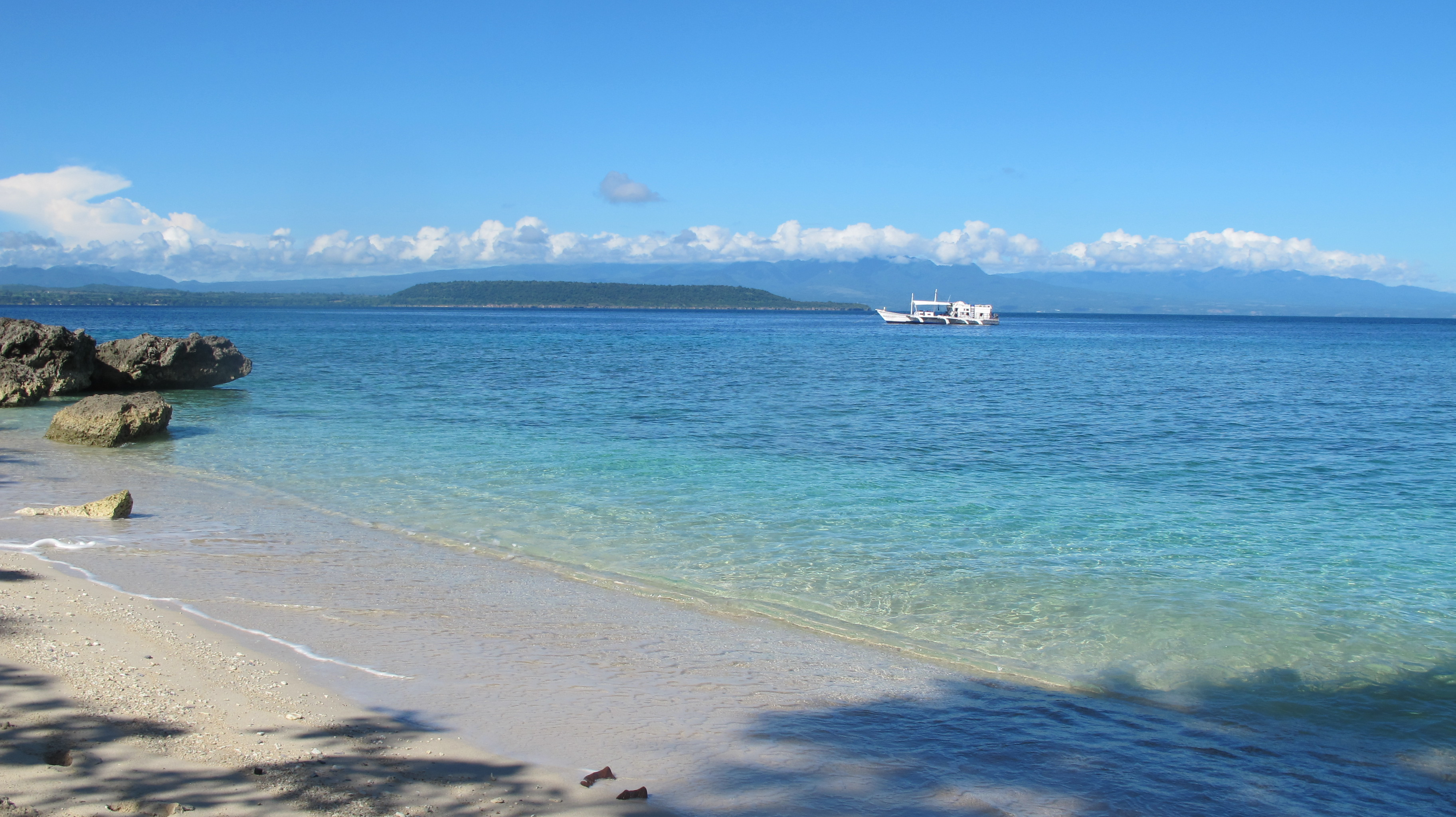 South Sea Nomads off Moyo Island in Northern Sumbawa